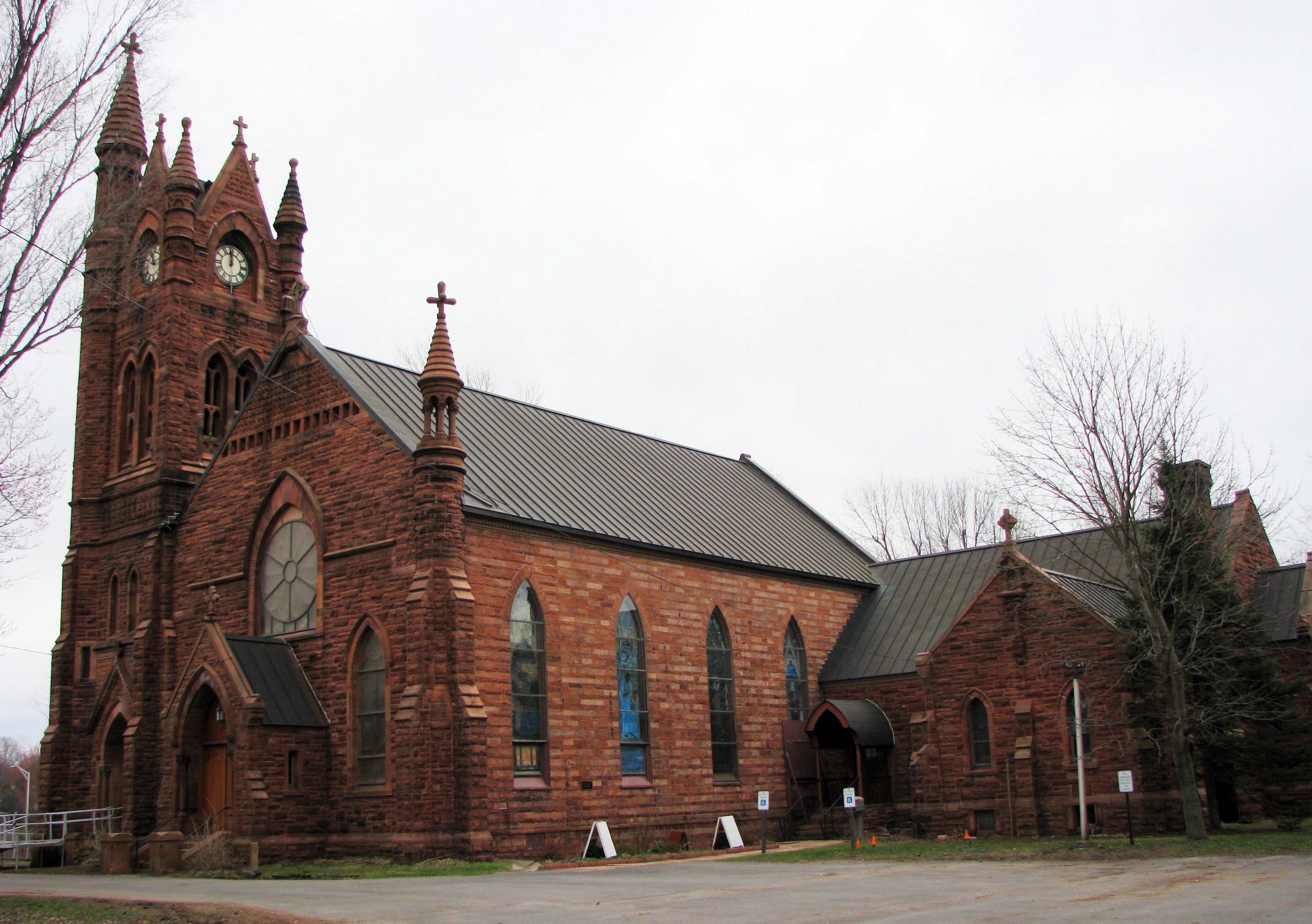 Trinity Episcopal Church in Potsdam, New York